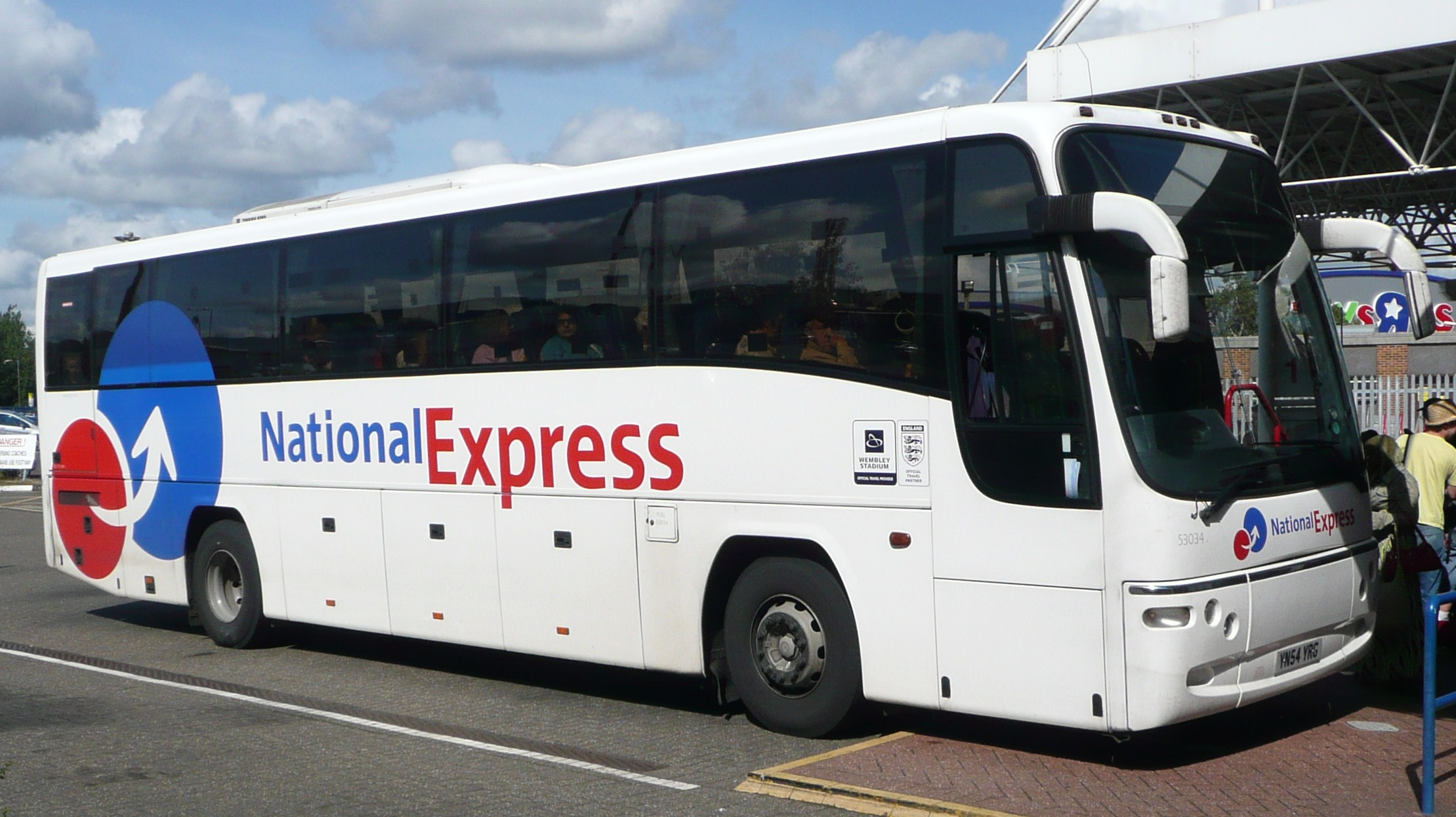 Stagecoach Yorkshire's 53034 (YN54 YRG), a Volvo B12B/Plaxton Paragon in Southampton Coach Station on a National Express route.